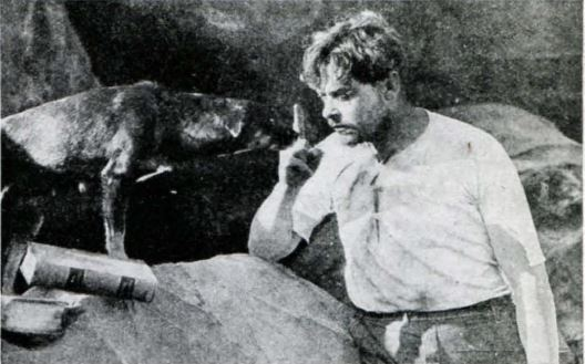 Mahlon Hamilton in the American film Half a Chance (1920) published on page 65 of the January 1921 issue of Photoplay magazine.